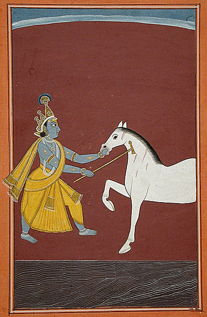 Krishna Destroys the Horse Demon Keshi , India, Himachal Pradesh, Chamba, South Asia